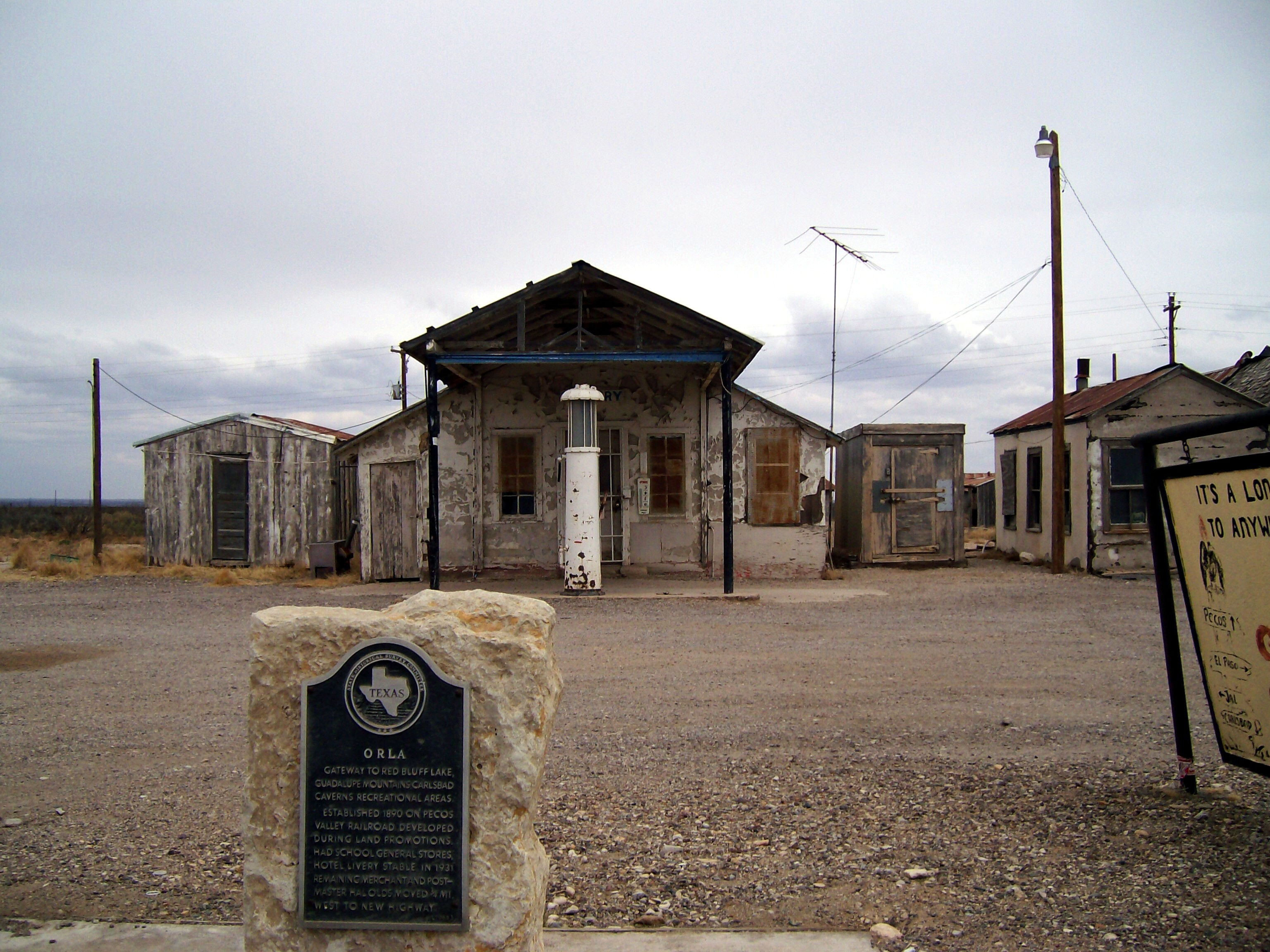 Historic Hall Olds store in Orla, Texas.